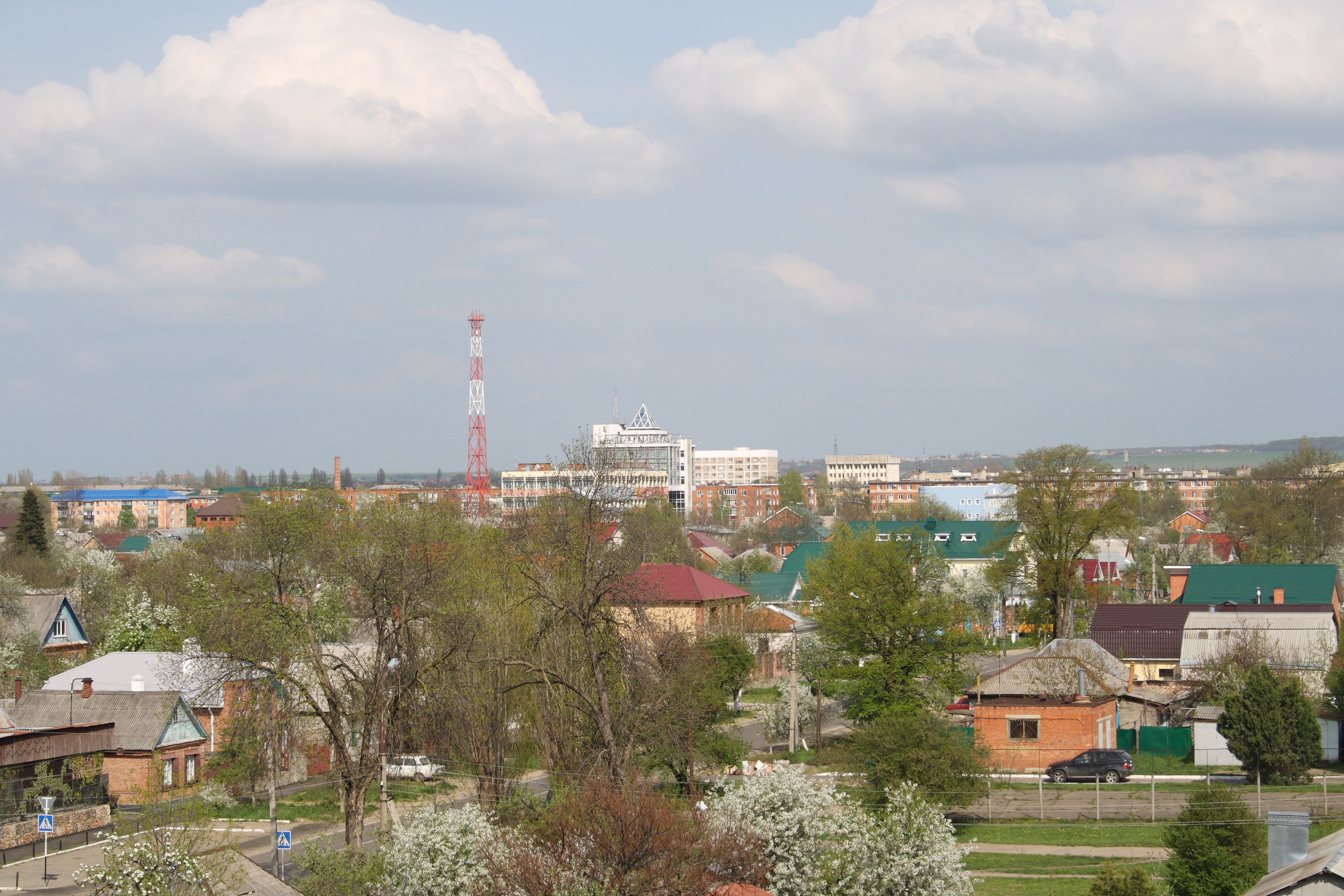 VIEW ON BANK OF MAYKOP (please CHECK PHOTO INFORMATION for more details)